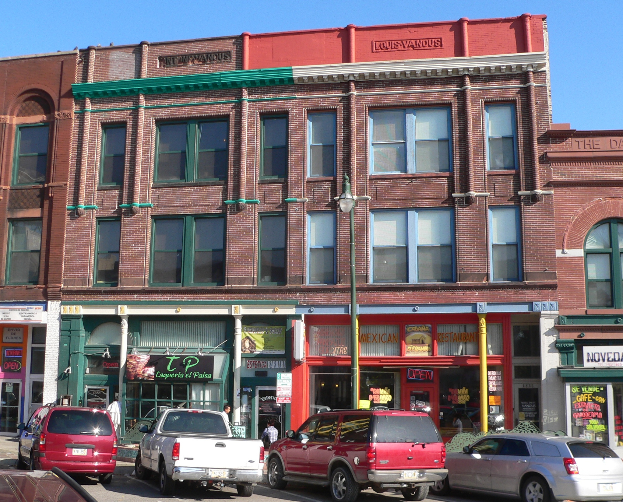 Vanous Block, located at 4833-35 S. 24th Street in Omaha, Nebraska. The building is a contributing property in the South Omaha Main Street Historic District.